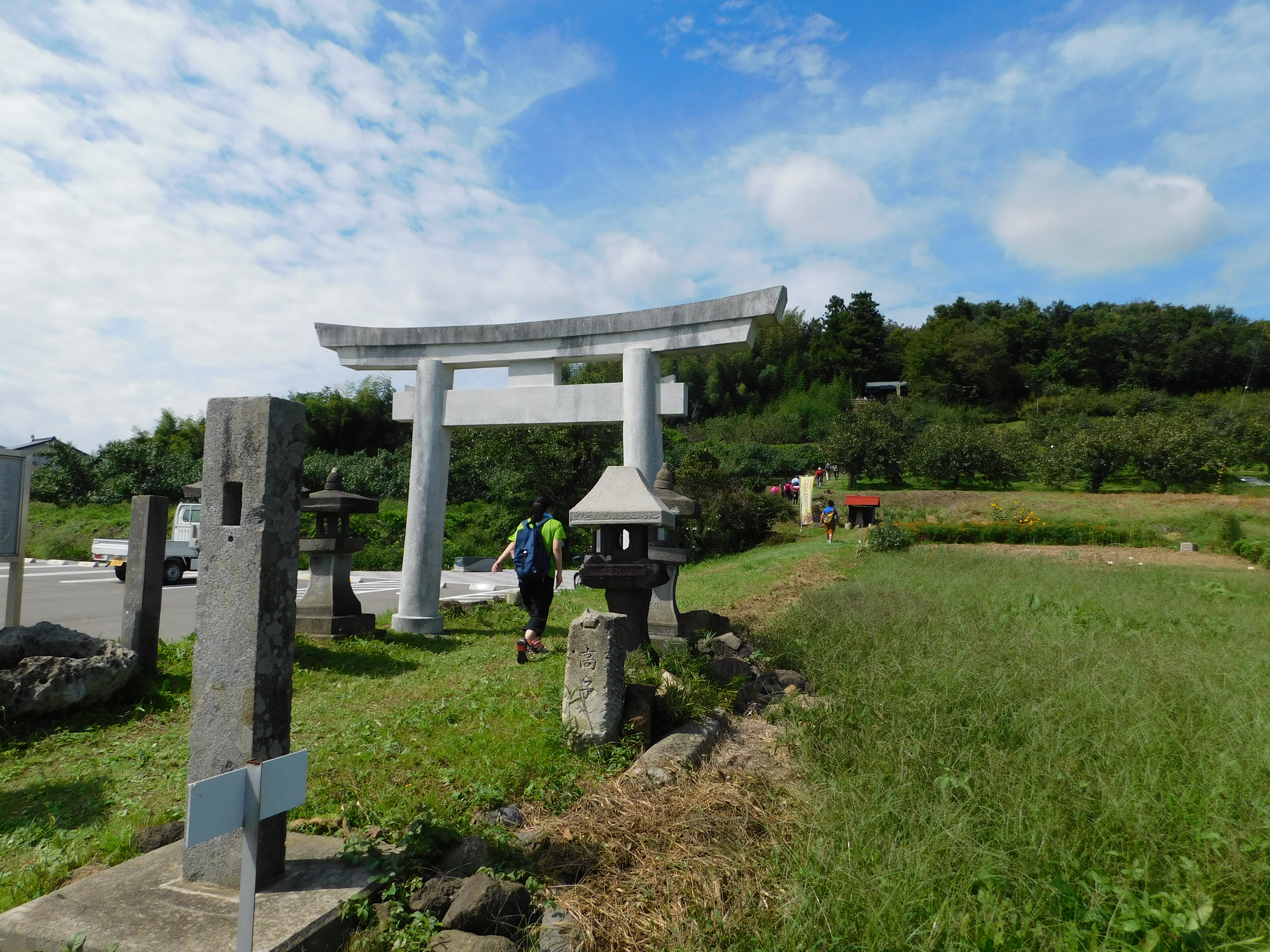 Photo of the white torri gate at the entrance to Takako's Tanroban.